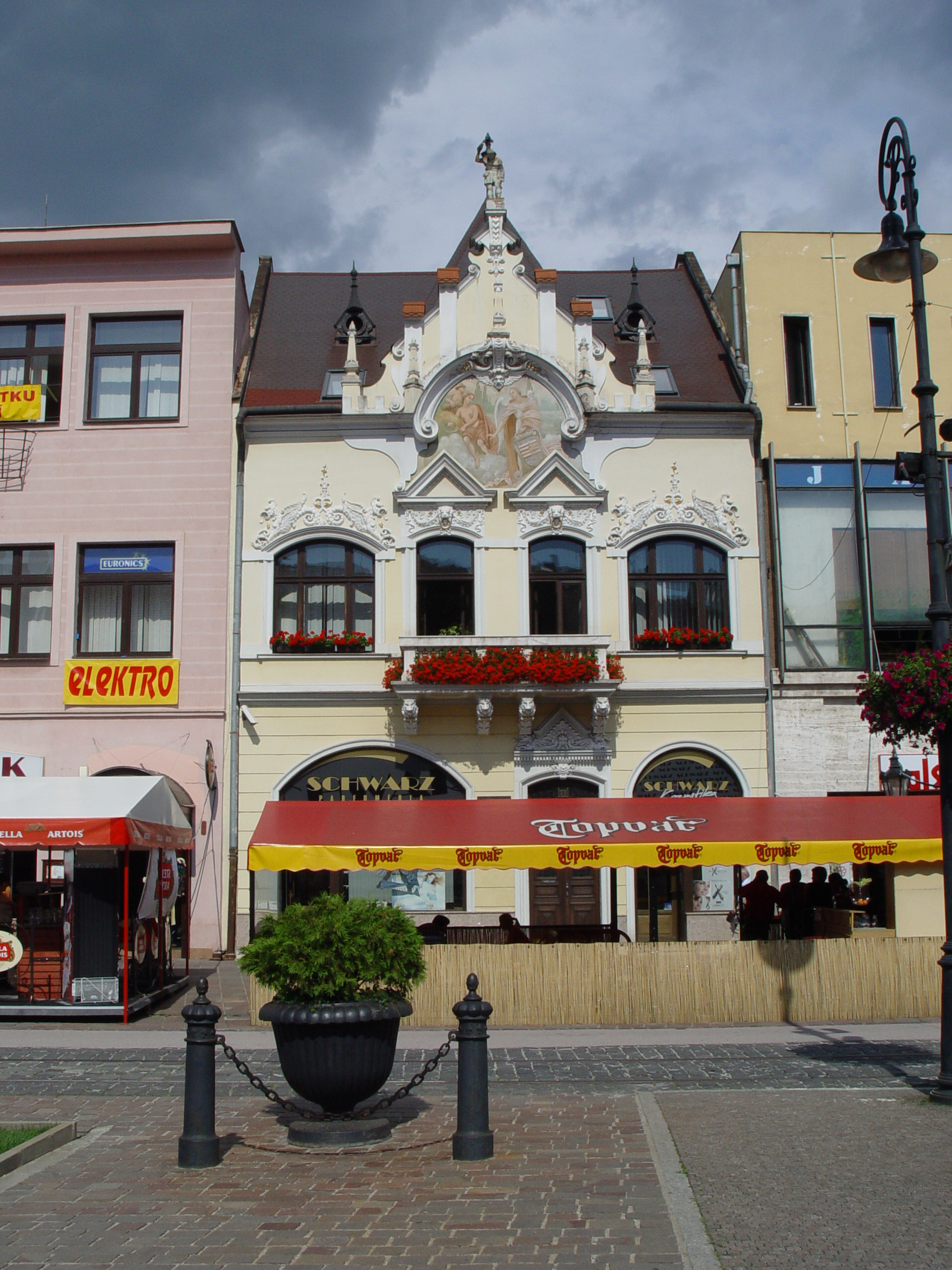 Slovakia, Košice, The House of Beggar on Main Street